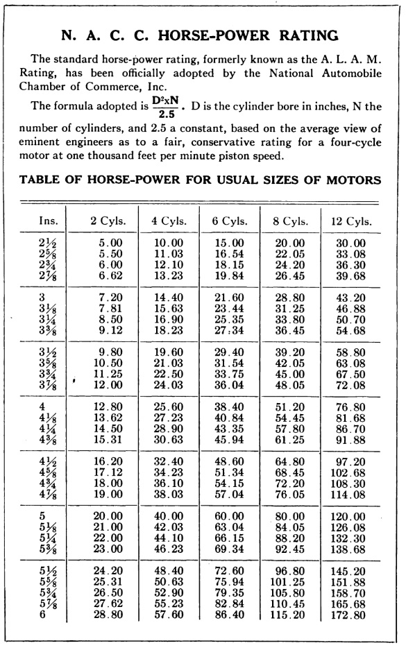 1916-1917 Horse Power Rating by the N.A.C.C. (National Automobile Chamber of Commerce), published in 1916 by McClure's Automobile year book. It is based on the formula first published in 1904 by the A.L.A.M. (Association of Licensed Automobile Manufacturers), an expanded to 8 and 12 cylinder cars. Excluded in this list are single cylinder engines. This Rating is similar to the contemorary British RAC Rating.